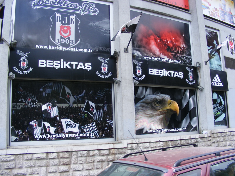 Another picture of the Besiktas JK Club Shop